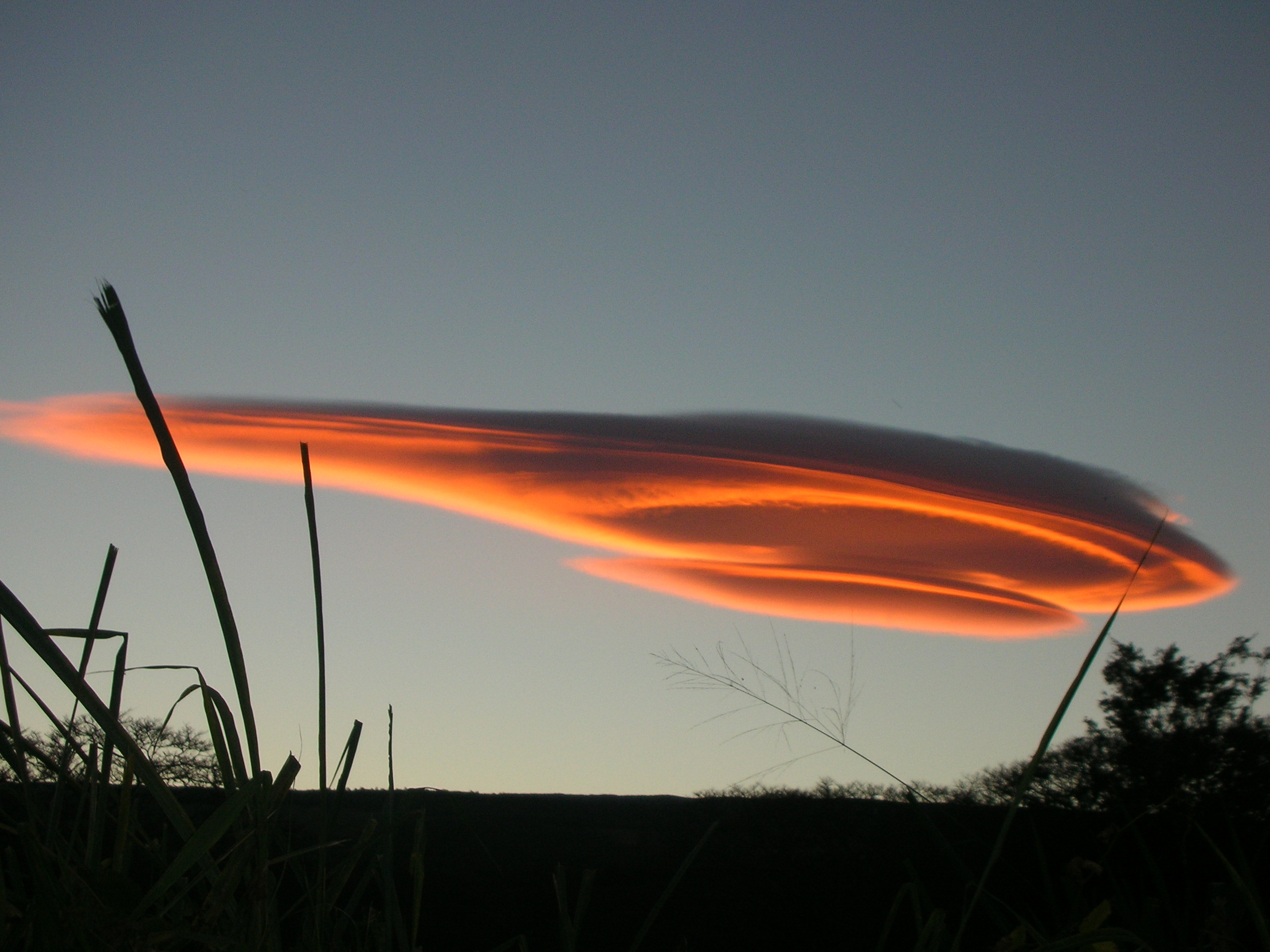 Lenticular cloud formation. Photo taken at dusk near Pahala, Hawaii